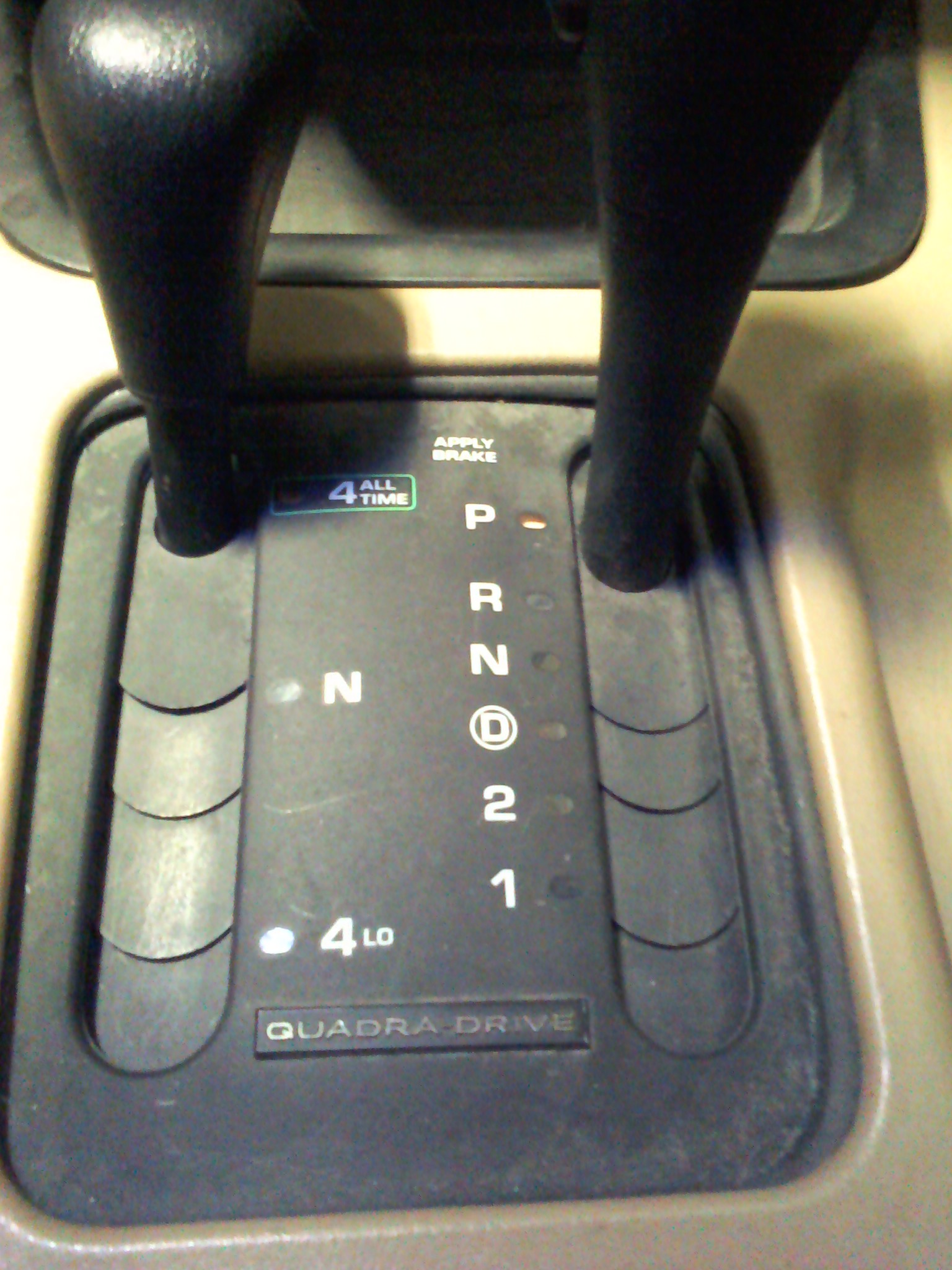 1999 Jeep Grand Cherokee 4.7L with Quadra-Drive